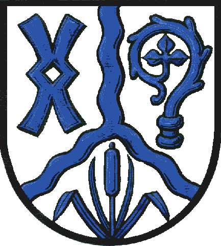 Coat of Arms of Barum